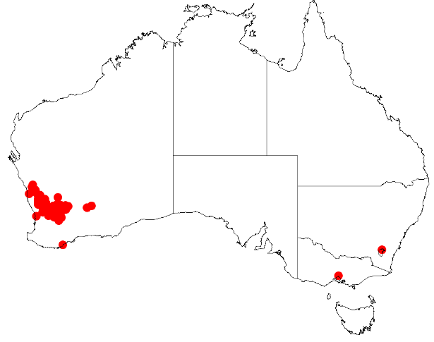 Acacia aestivalis Occurrence data from Australasia Virtual Herbarium downloaded from on 8 December 2018